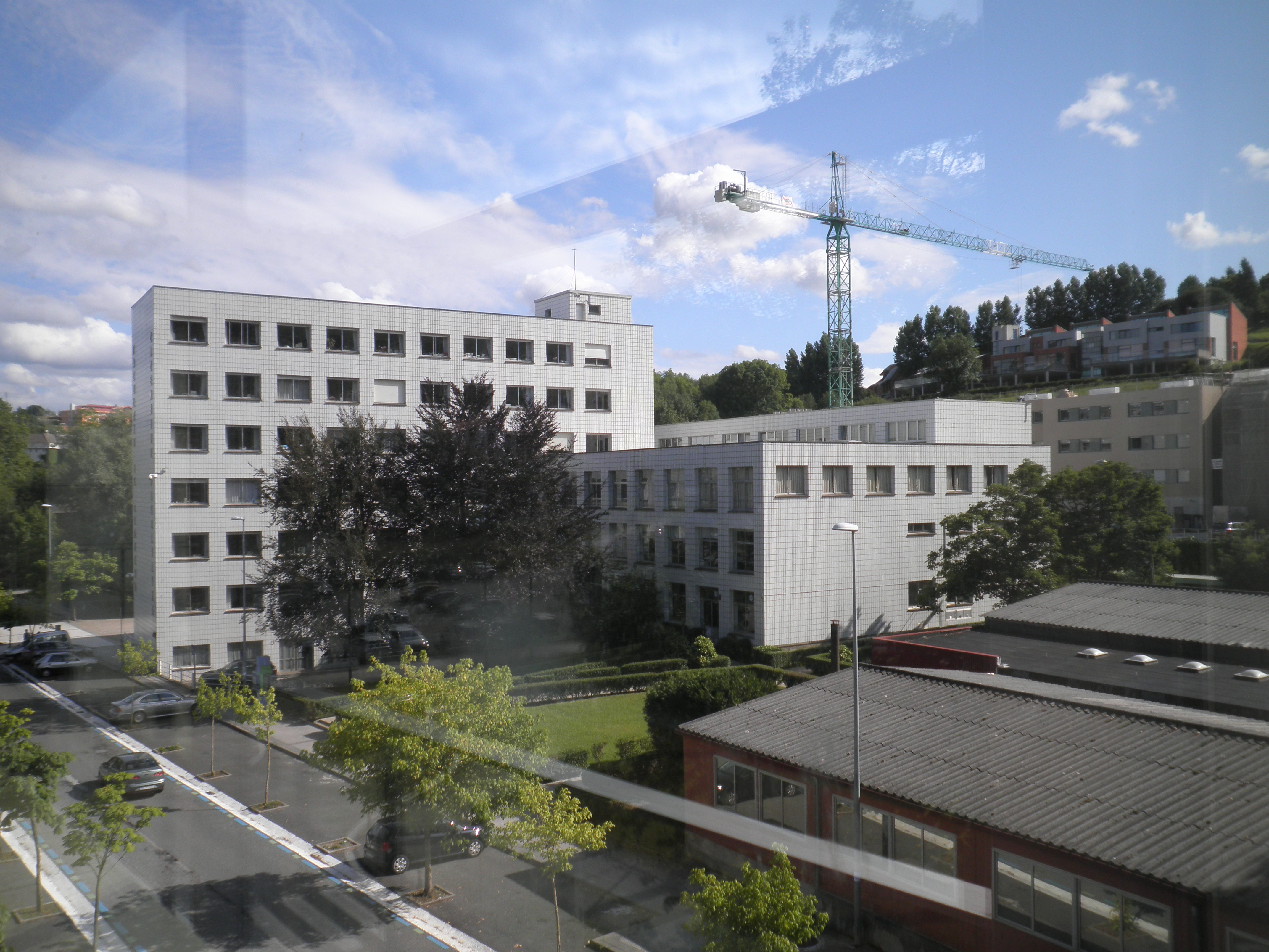 Law faculty in Donostia.